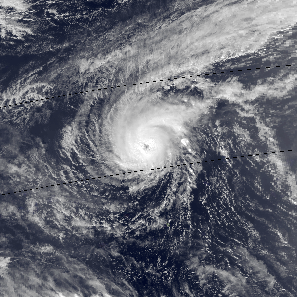 Typhoon Alice on January 7, 1979